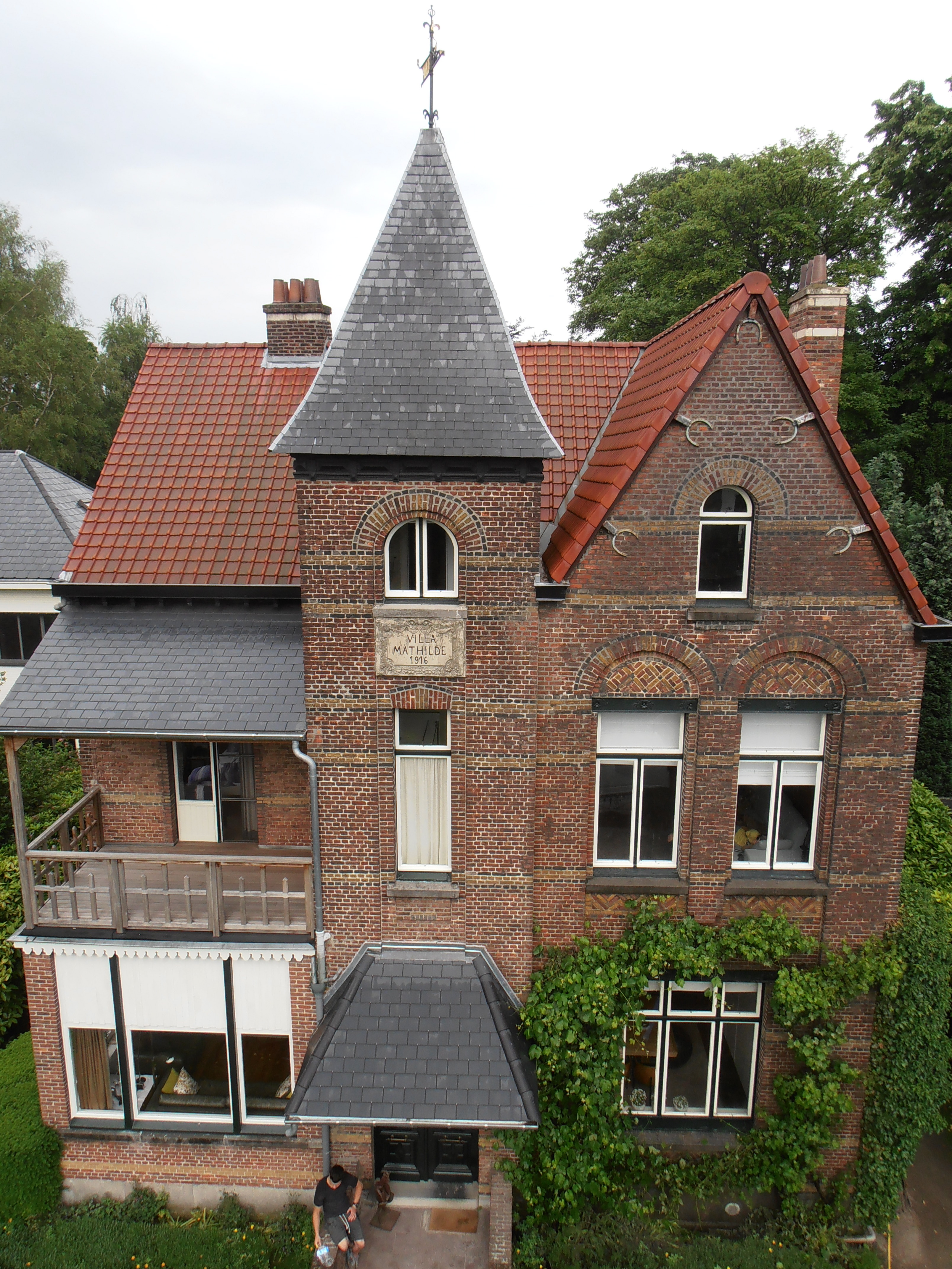 Template:Villa Mathilde